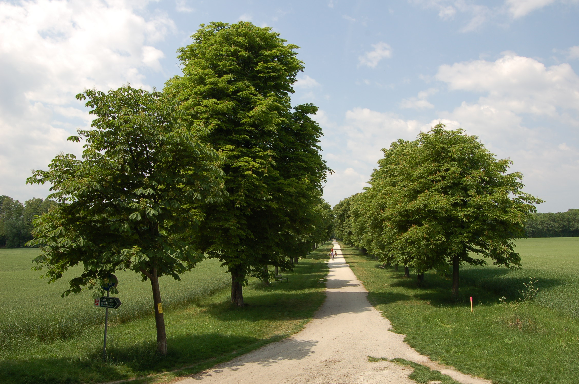 Akademiepark (park of Theresian Military Academy) at Wiener Neustadt, Lower Austria